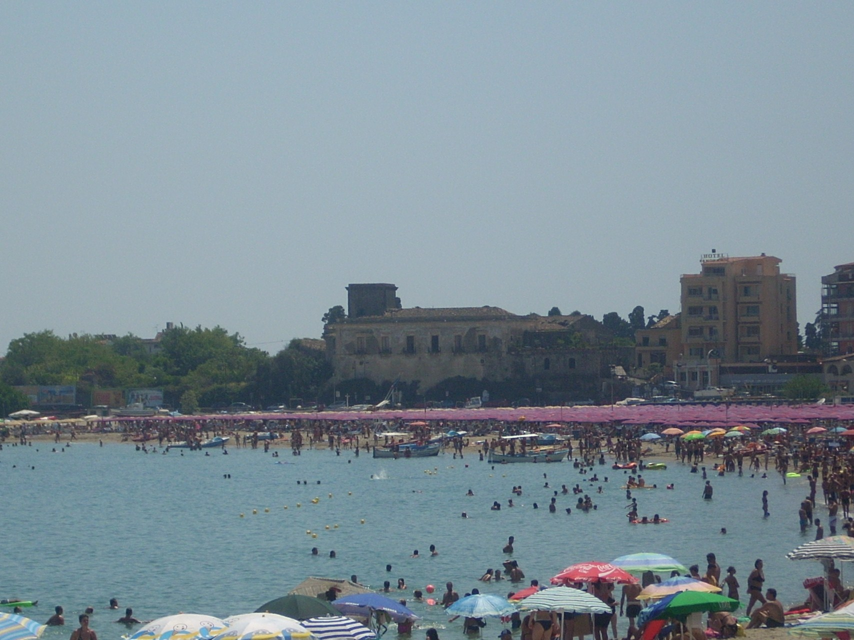 View of Schiso Castle